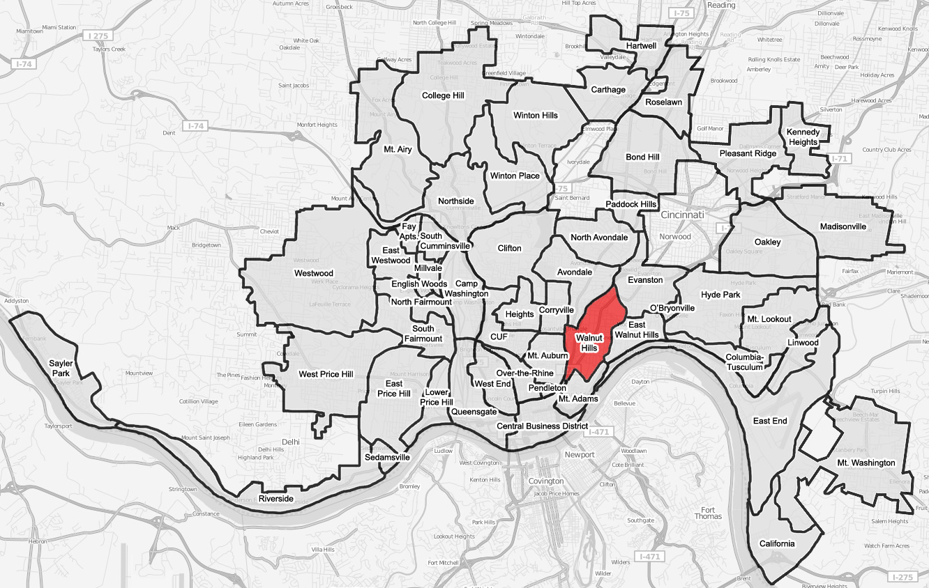 A map of the neighborhood of Walnut Hills within Cincinnati, Ohio. Neighborhood lines are based on information from This street map is derived from a free map.